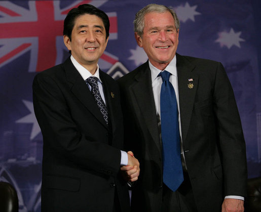 Prime Minister Shinzō Abe of Japan President George W. Bush and, shake hands following their meeting Saturday, Sept. 8, 2007, in Sydney.